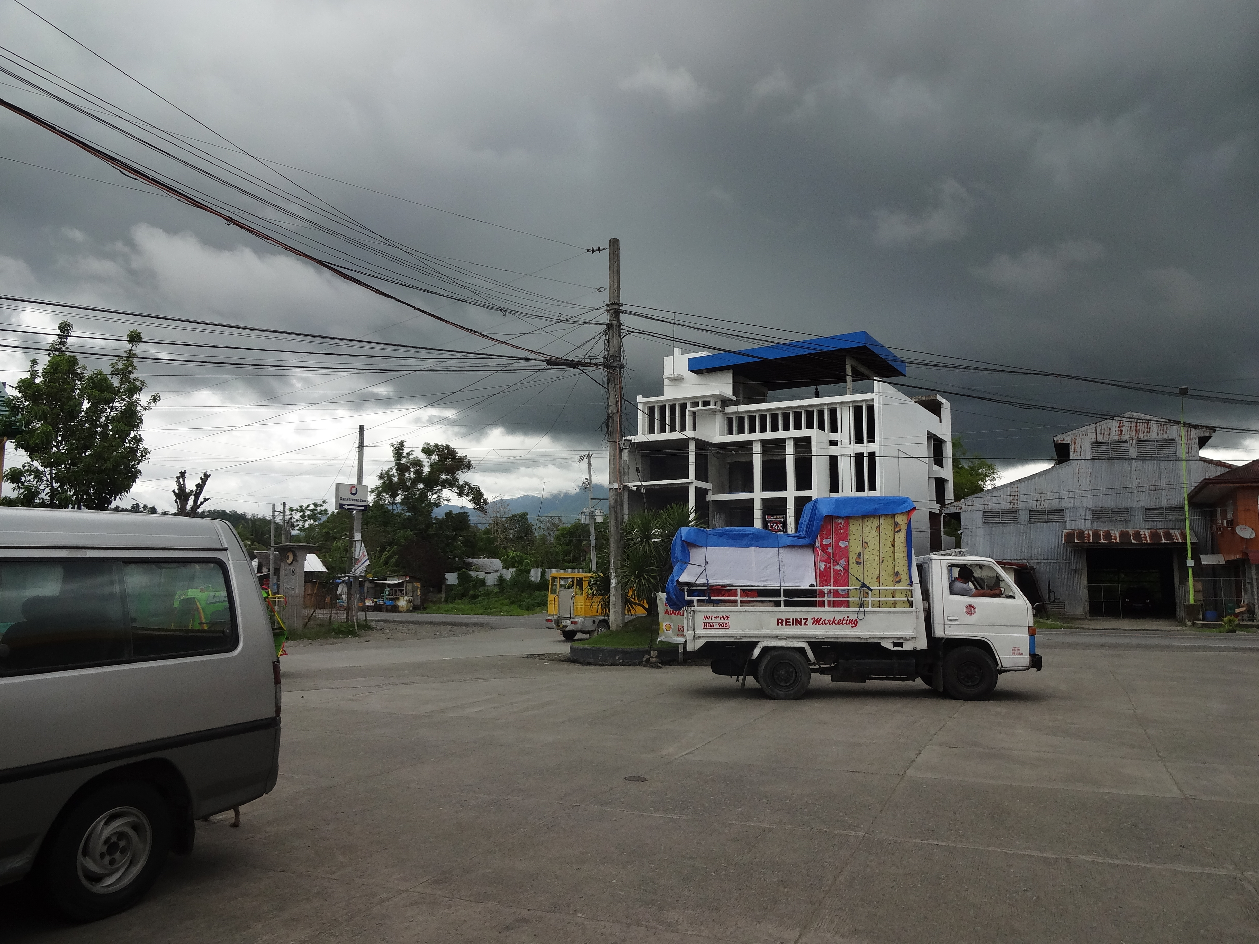 This is my own work. The Unfinished BCBMPC Building